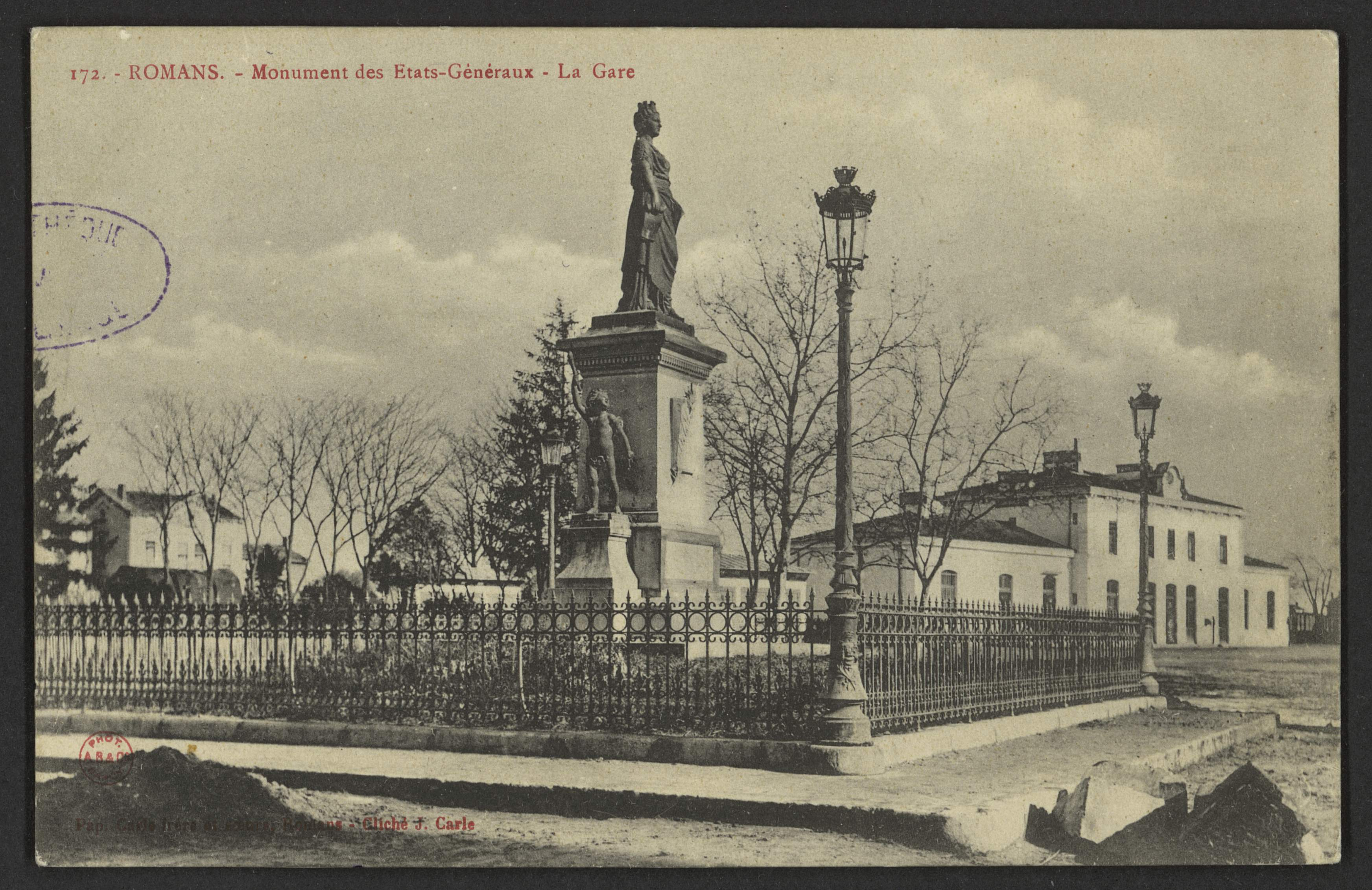 CA 1900